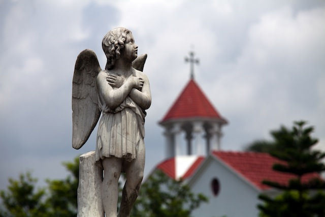 Film Shot from Andin. Armenian Journey Chronicles Documentary, 2012. India, Bengal.